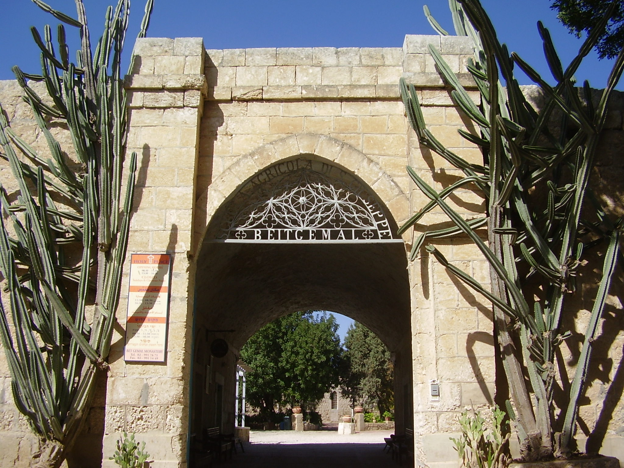 beit gemal monastery